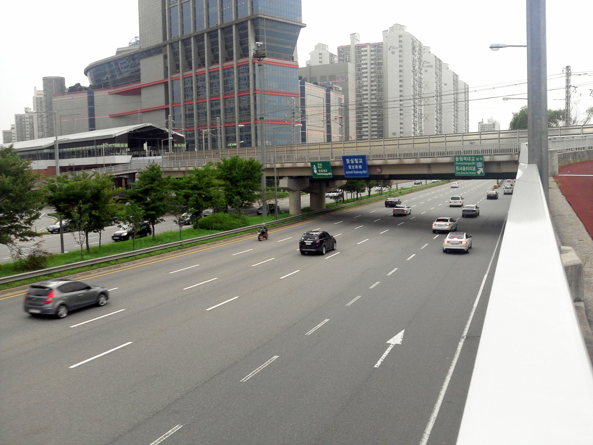 Korea Urbanexpressway - Seoul Gangbyeonbukro(Gangbyeon Expressway, North Riverside Expressway) Jamsil Railway Bridge Northern